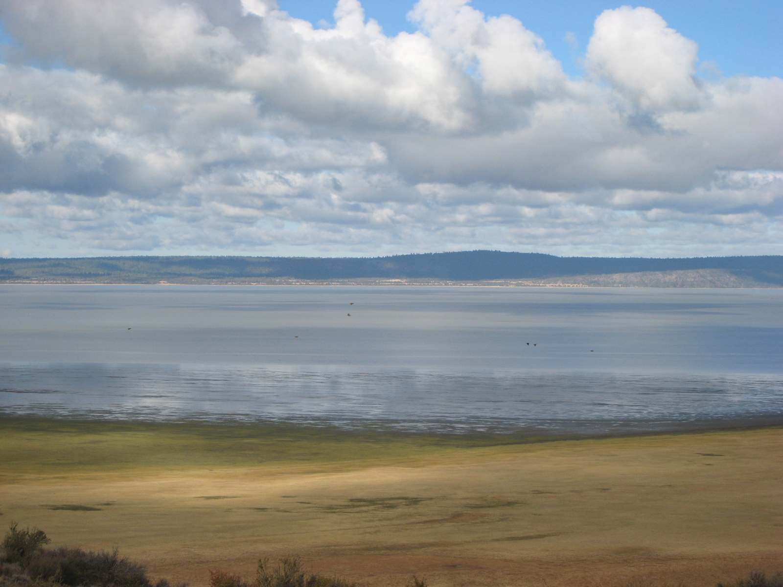 Goose Lake, California, 9/23/2007